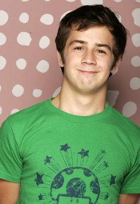 Michael Angarano professional headshot.